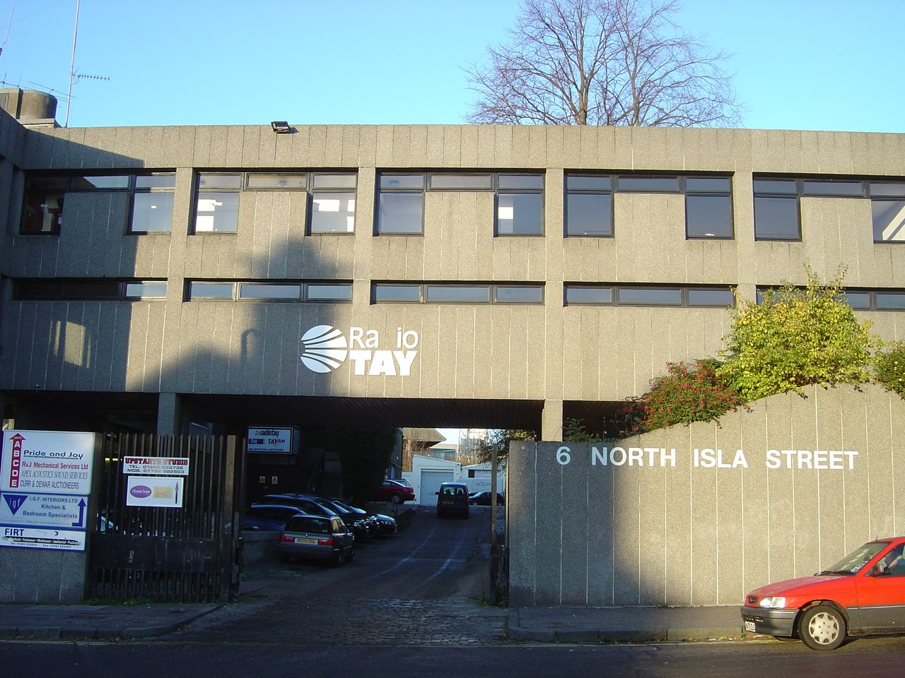 Radio Tay office